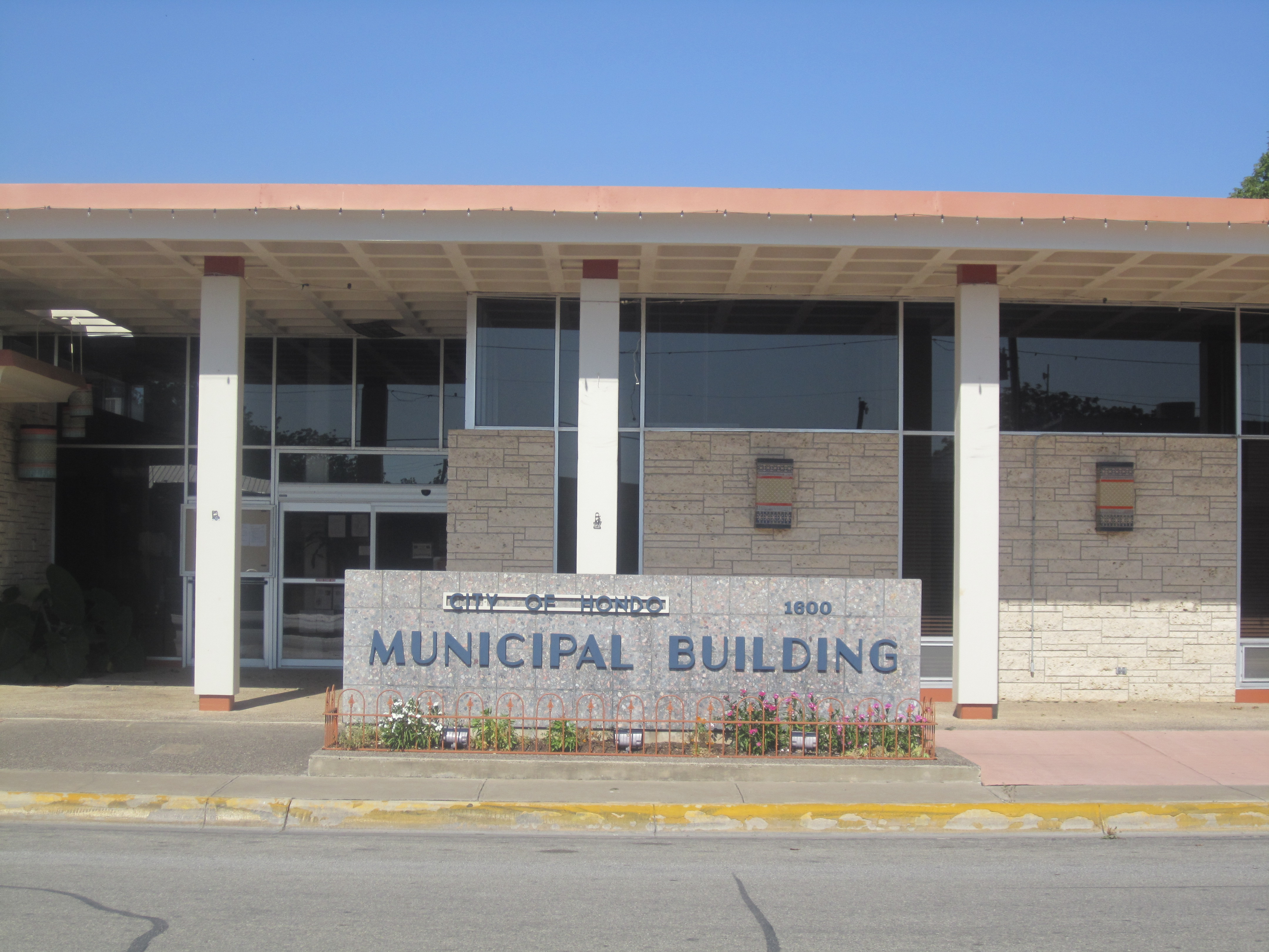 I took photo with Canon camera in Hondo, TX, of the city hall.